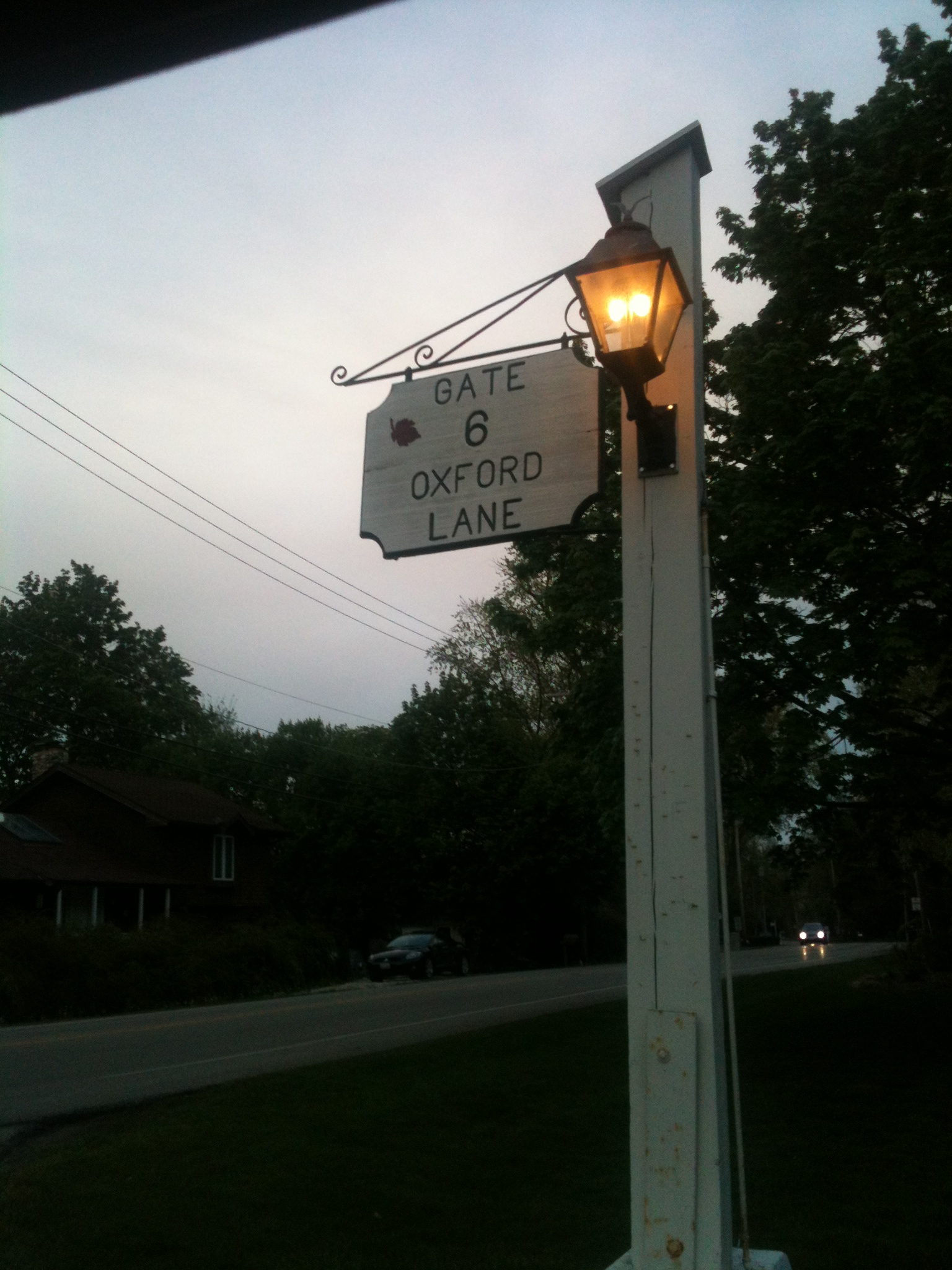 Locally called Gates, this is a street sign on Lake Shore Drive in Lakewood IL near the Crystal Lake border